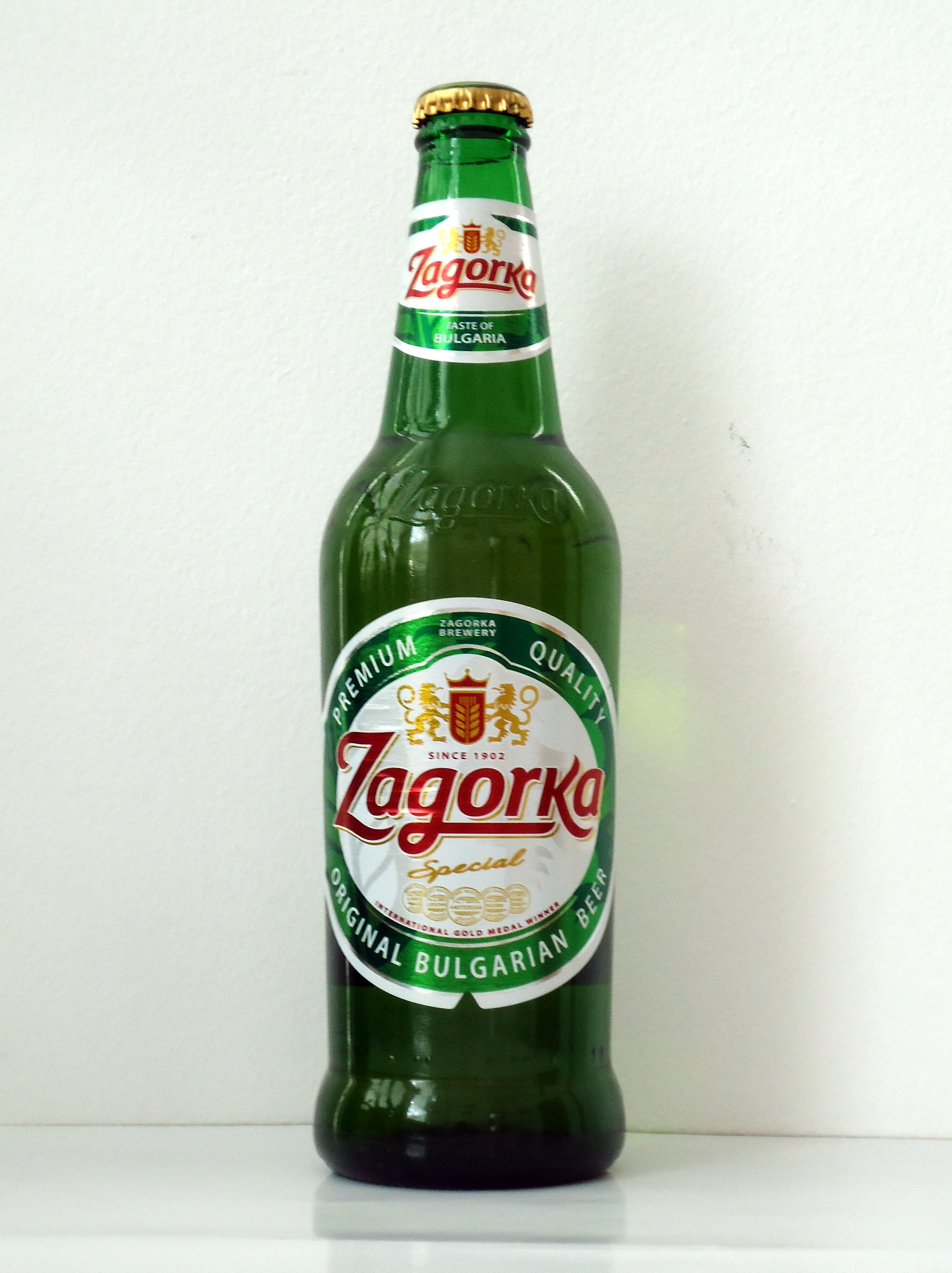 Zagorka Special - Bulgaria